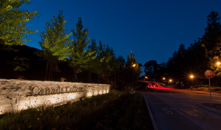 This is the entrance to Cañada College off Farm Hill Blvd.